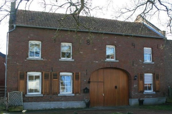 Cultural heritage monument No. 23 in Selfkant